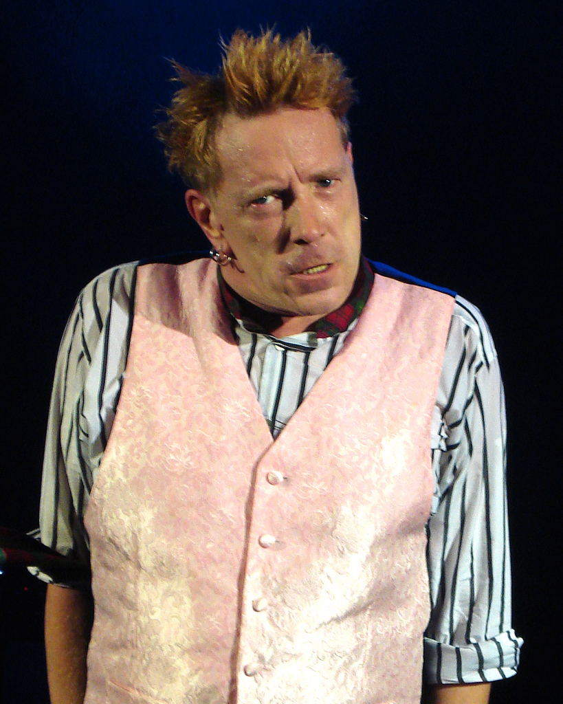 John Lydon (Johnny Rotten) of the Sex Pistols at the Hammersmith Odean in London, September 2, 2008.